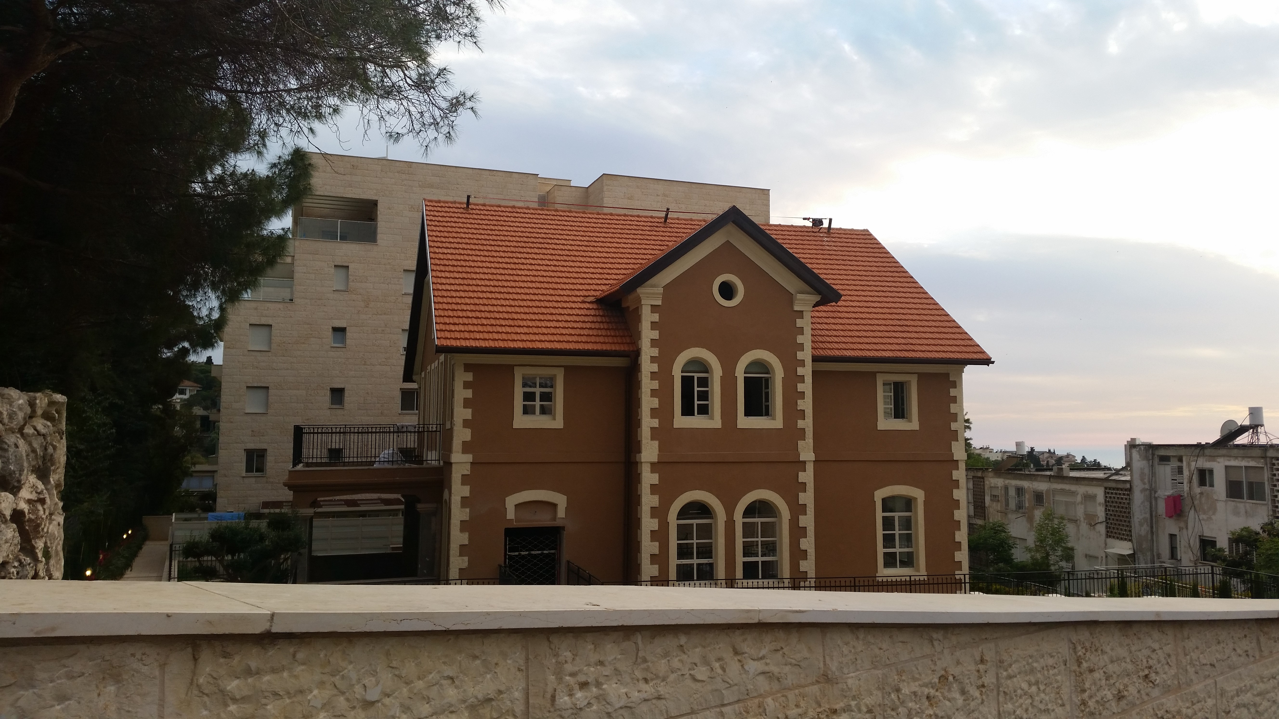 Pastor Schneider House, HaTishbi street No.130, Haifa, Israel.